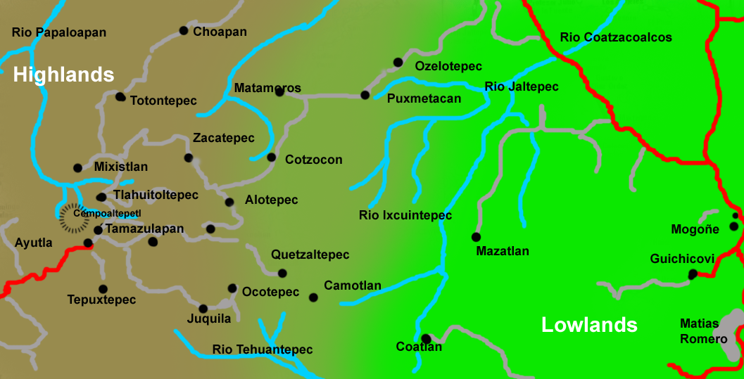 Map of the Main Mixespeaking towns in the Sierra Mixe, Oaxaca, Mexico